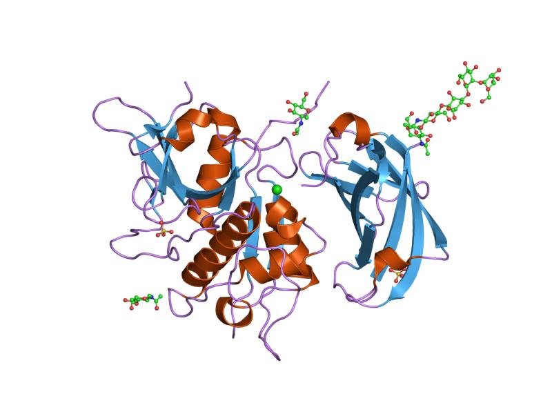 Cartoon representation of the molecular structure of protein registered with 2djg code.